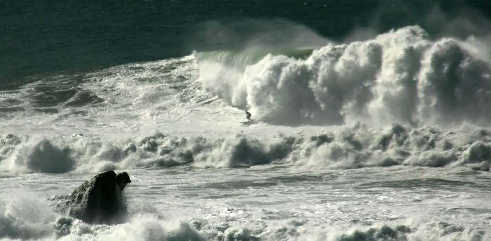 Mavericks and a surfer